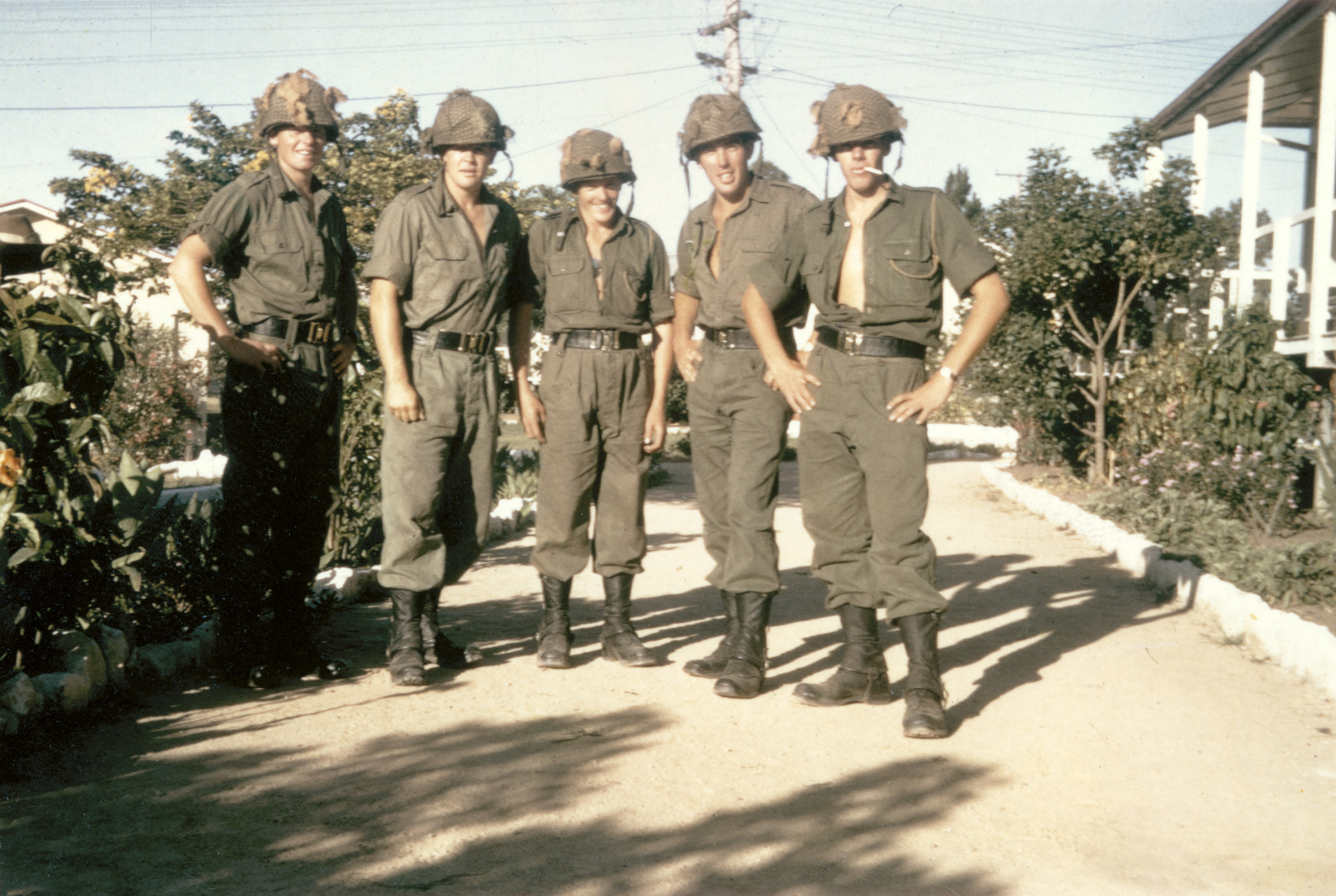 Unknown Enoggera, Queensland 1966 Members of 8 platoon, C Company, 6th Battalion, Royal Australian Regiment, in the battalion lines at Enoggera, Queensland, prior to deployment to Vietnam in May 1966. From left: 2781803 Private Rodney Cox of Ganmain, NSW; 2781794 Private Gordon Stafford of Gunnedah, NSW; 2781823 Private Neil (Pop) Baker of Newcastle, NSW; 2781790 Private Mark (Scrub) Minell of Moree, NSW; 2781809 Private Graham Irvine of Coolamon, NSW. All five men were called up in the first intake of national service in July 1965. Note the protective steel helmets with camouflage netting, usually worn by Australian infantry on operations in areas known to have been mined by the enemy. Rights Info: No known copyright restrictions. This photograph is from the Australian War Memorial's collection Persistent URL